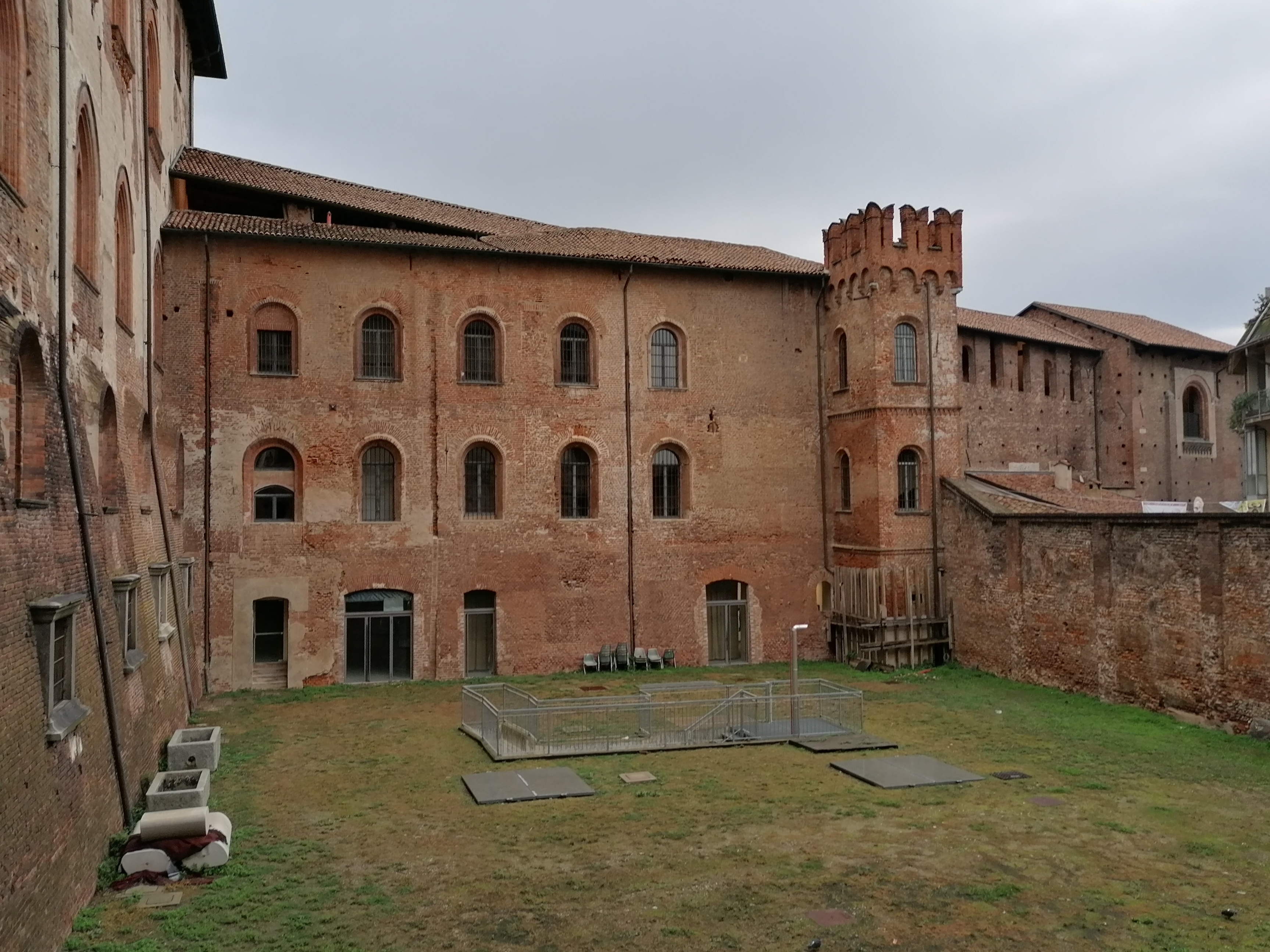 Courtyard of Vigevano Sforza Castle.